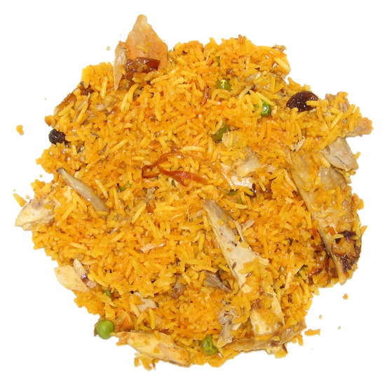 A dish of Burmese biryani